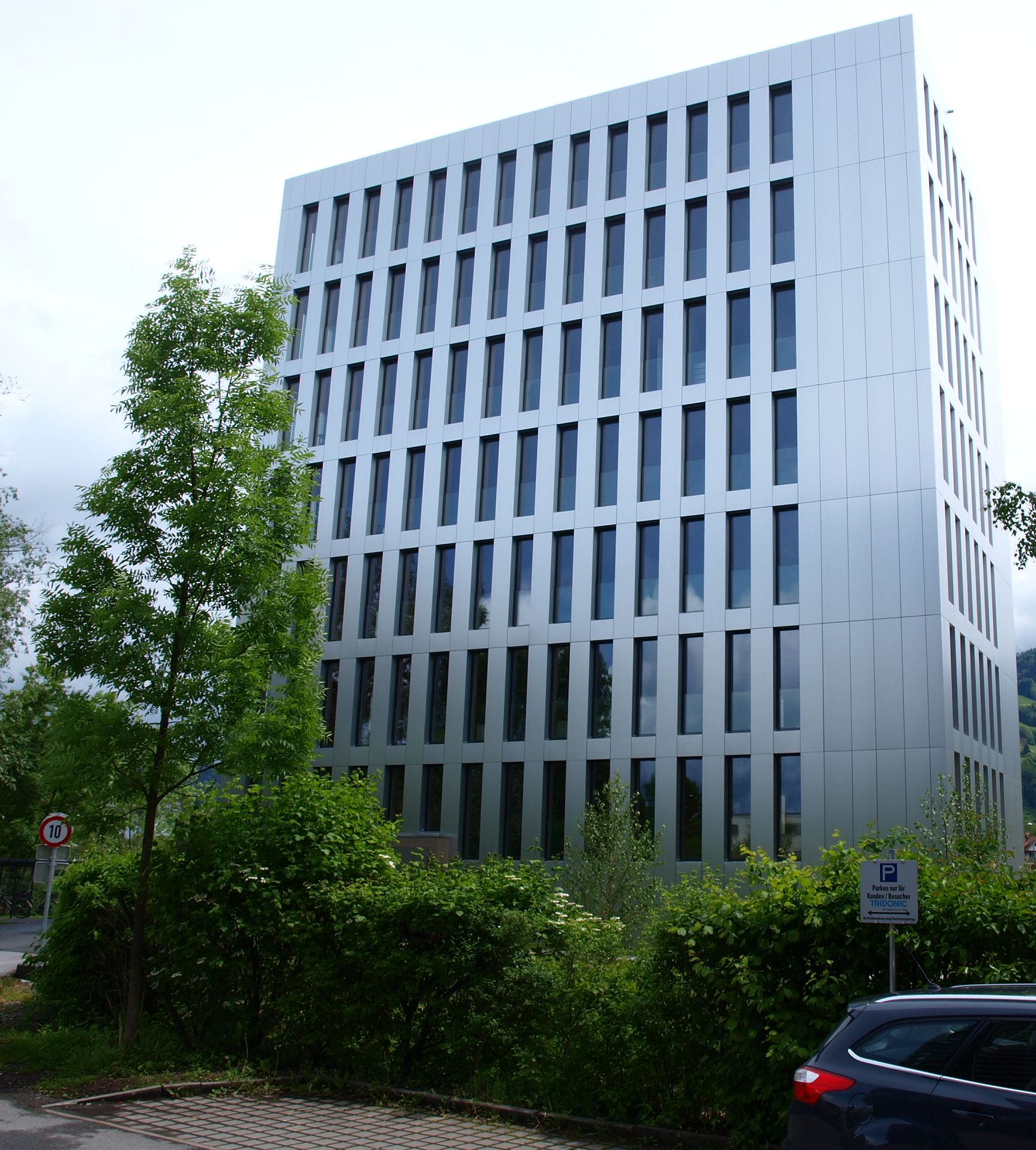 LCT ONE (LifeCycle Tower No. 1), Dornbirn, Vorarlberg Austria. multifunctional demonstrationbuilding in wood-boltwork. West side of the building.